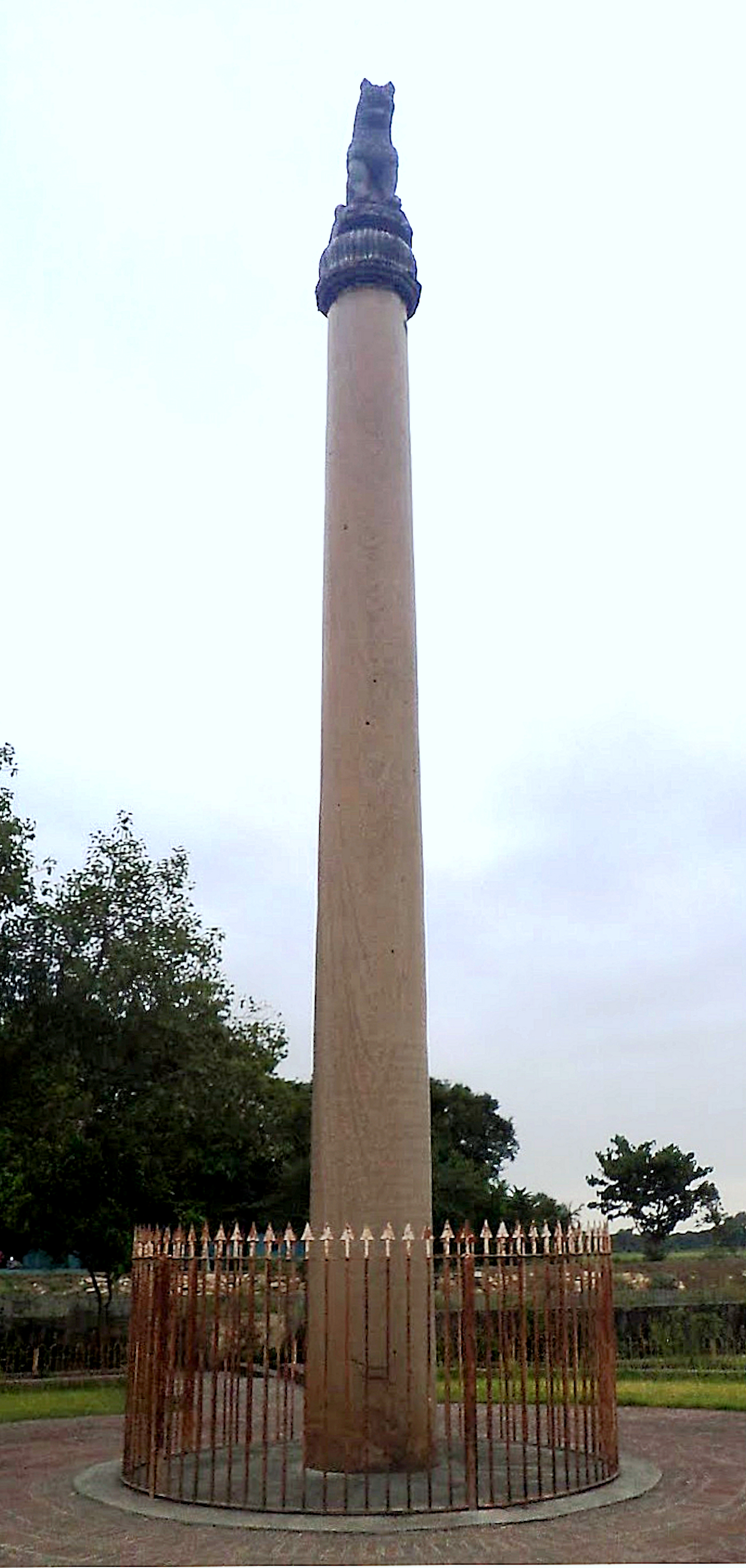 Lauria Nandangarh pillar of Ashoka